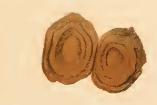 Stainton’s Natural History of the Tineina (1855–1873): Incurvaria koerneriella